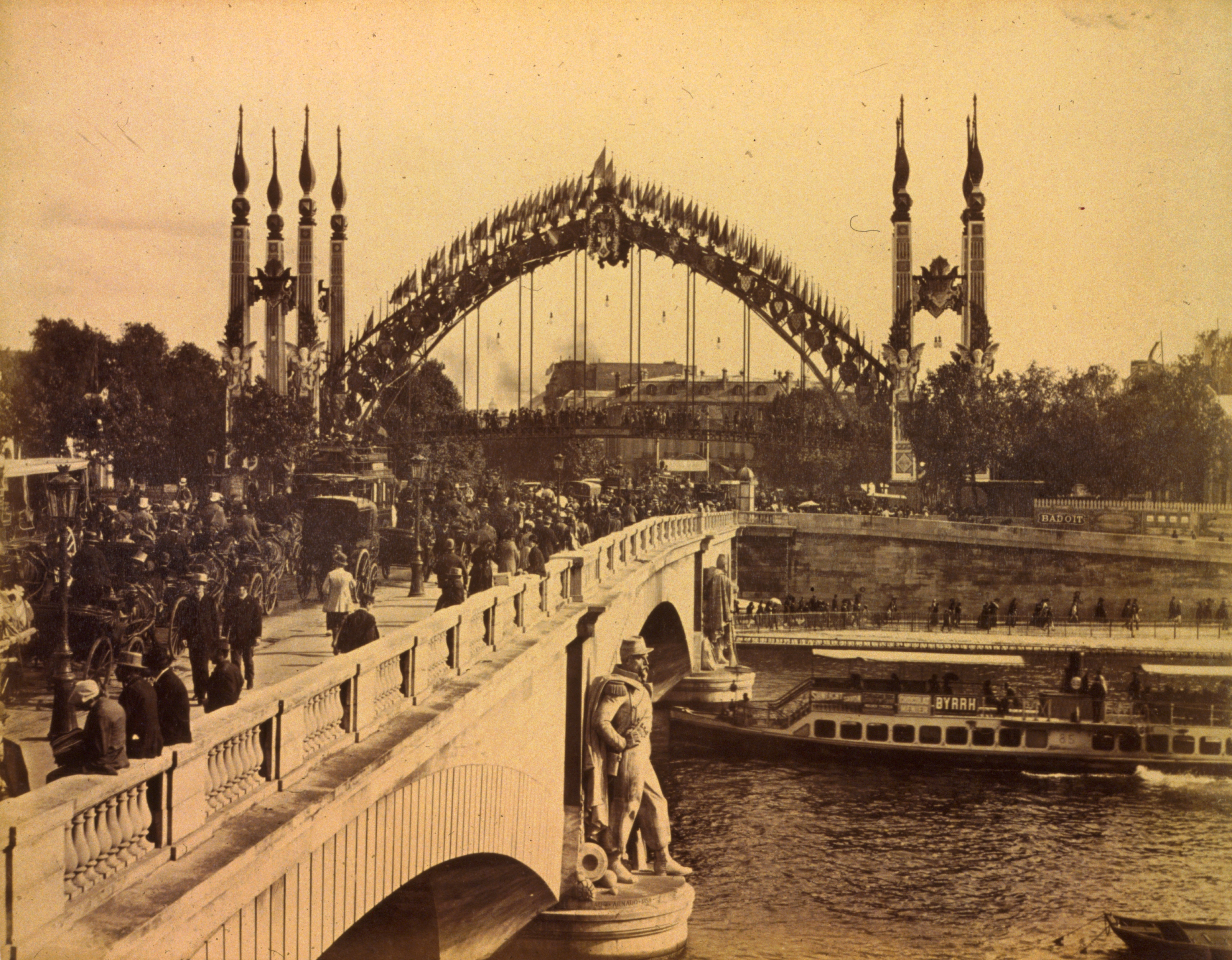 Crowds crossing the Pont de l'Alma, looking toward the Passerelle de l'Alma on the Quay d'Orsay, Paris Exposition, 1889